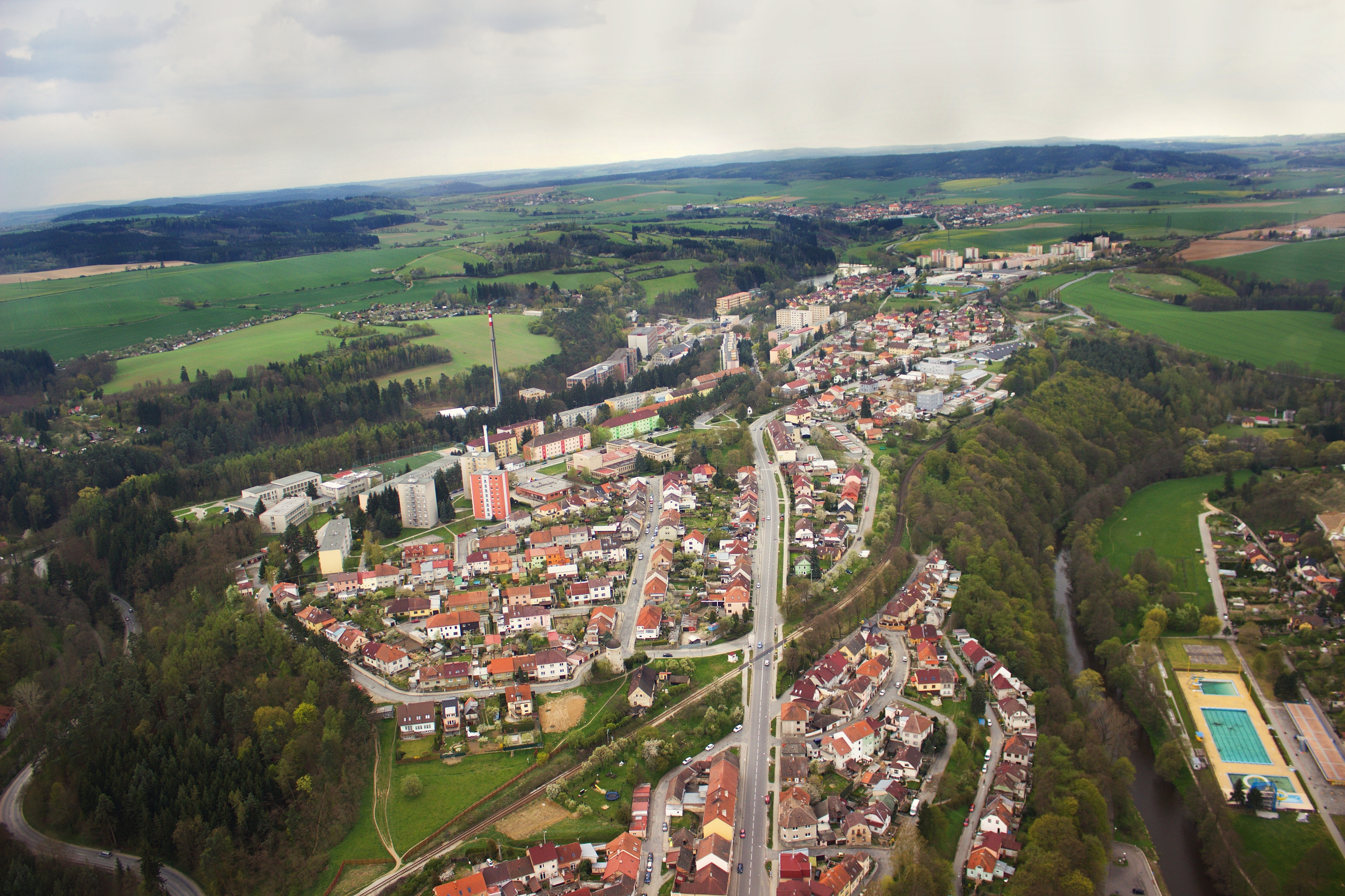 Aerial view of Borovina, part of Třebíč town, from the east.